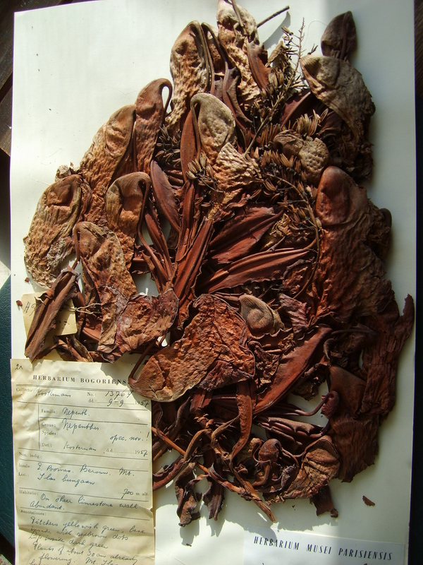 Isotype of Nepenthes campanulata (Kostermans 13764) deposited at the Museum National d'Histoire Naturelle in Paris, France.